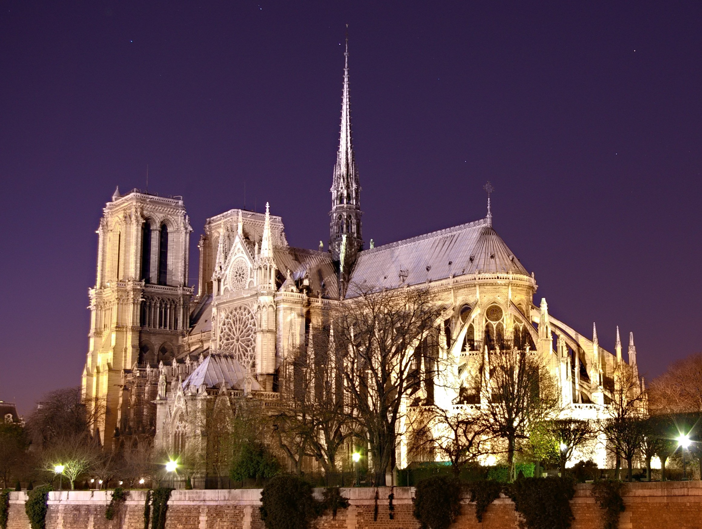 Notre Dame de Paris, by night time, seen from the east side